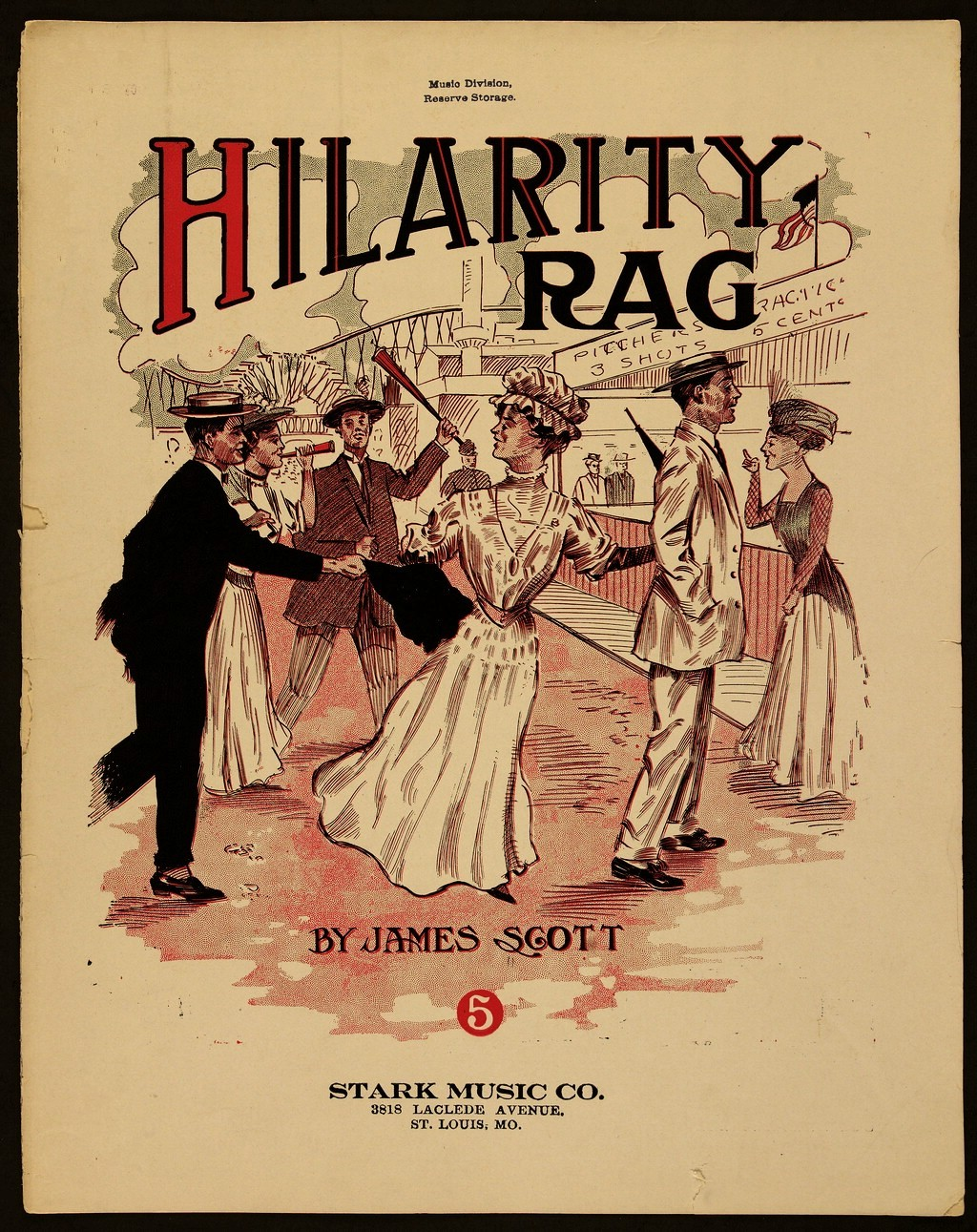 Hilarity Rag, 1910